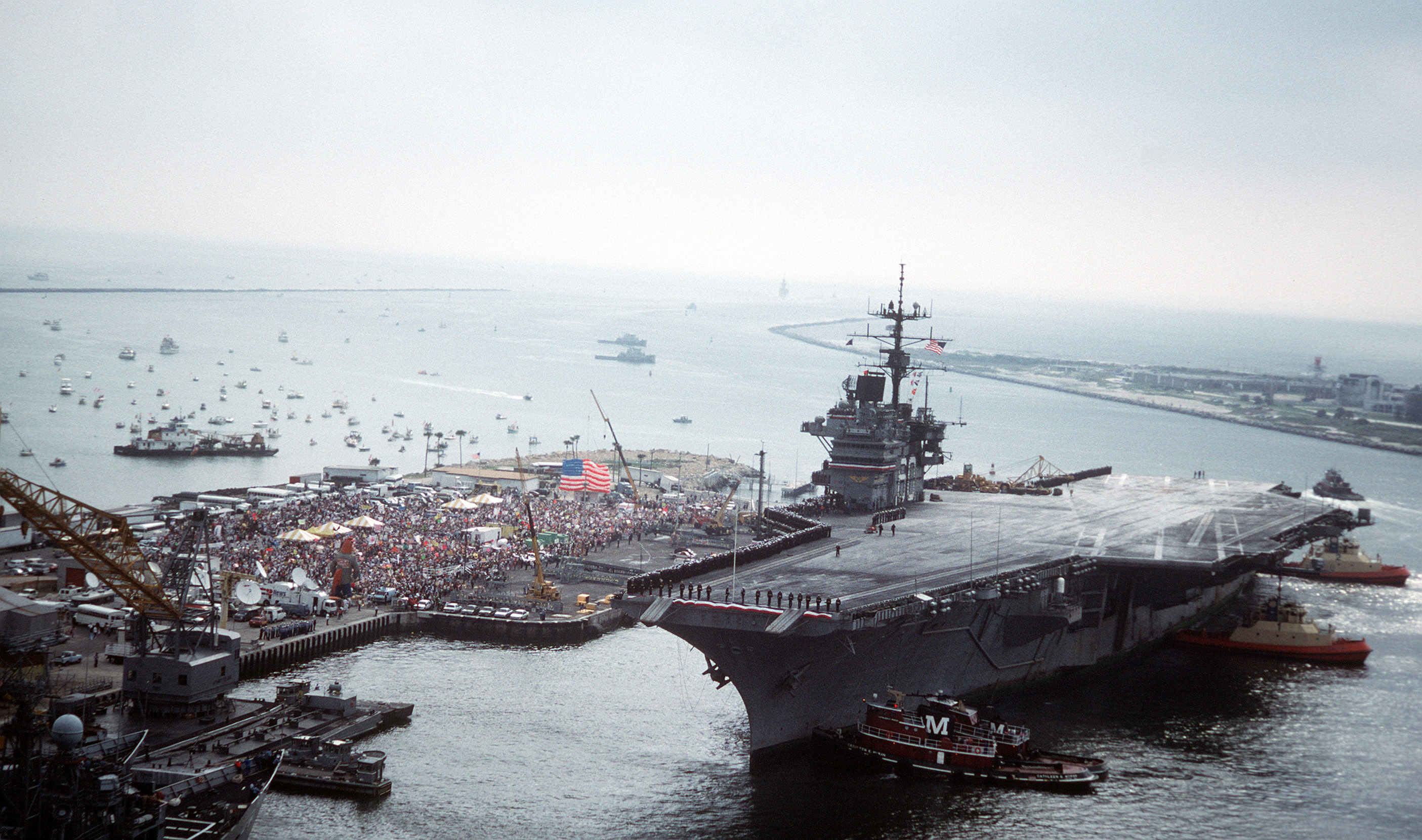 Hundreds of people wait on the shore as the aircraft carrier USS SARATOGA (CV-60) is moved into place alongside the pier. The SARATOGA and its battle group are returning to Mayport following their deployment to the Persian Gulf region for Operation Desert Shield and Operation Desert Storm. Location: NAVAL STATION, MAYPORT, FLORIDA (FL) UNITED STATES OF AMERICA (USA)